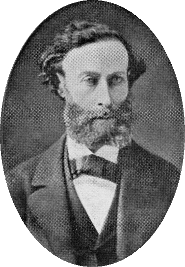 A photo of Leopold Einstein, a Volapükist and later Esperantist of great influence.